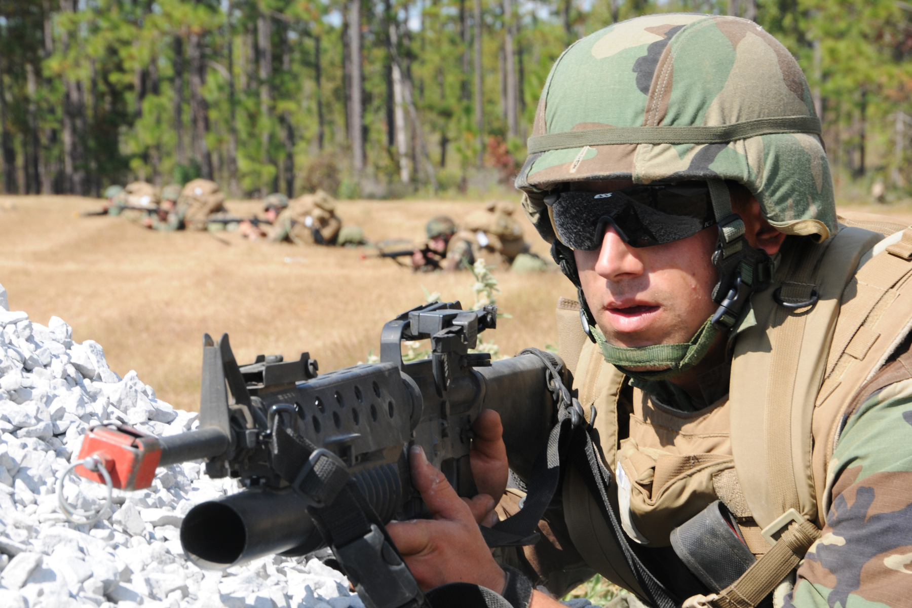 CAMP SHELBY, Miss. (Oct. 13, 2010) Construction Electrician 2nd Class Carl Harms, from Lake Odessa, Mich., assigned to Naval Mobile Construction Battalion (NMCB) 26, uses a rock pile for cover while acting as fire line anchor. NMCB-26 is preparing for a deployment to Afghanistan. (U.S. Navy photo by Mass Communication Specialist 2nd Class Charles White/Released)